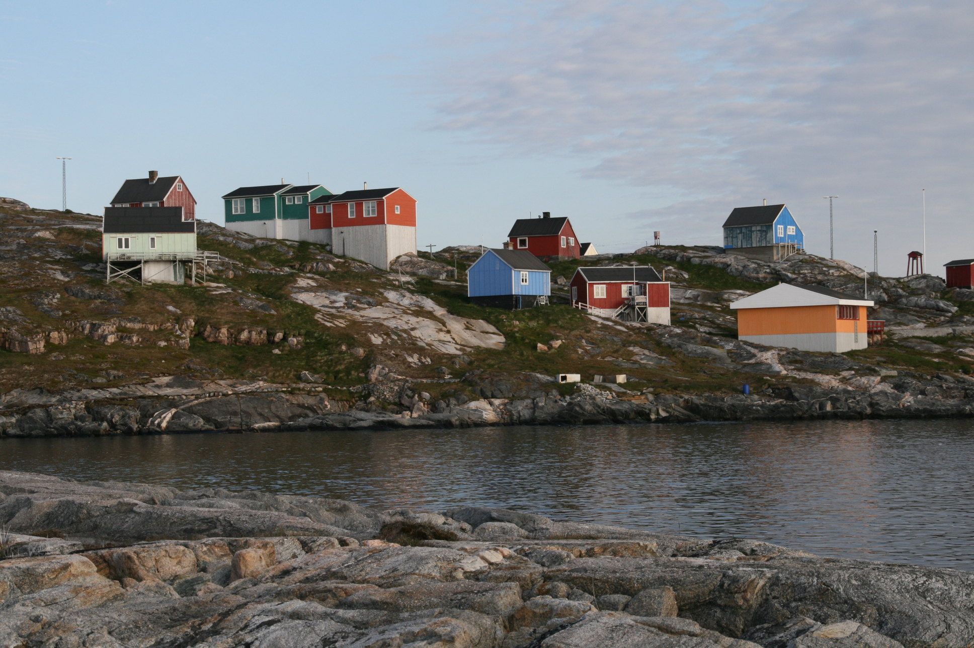 Saarloq viewed from inside the settlement